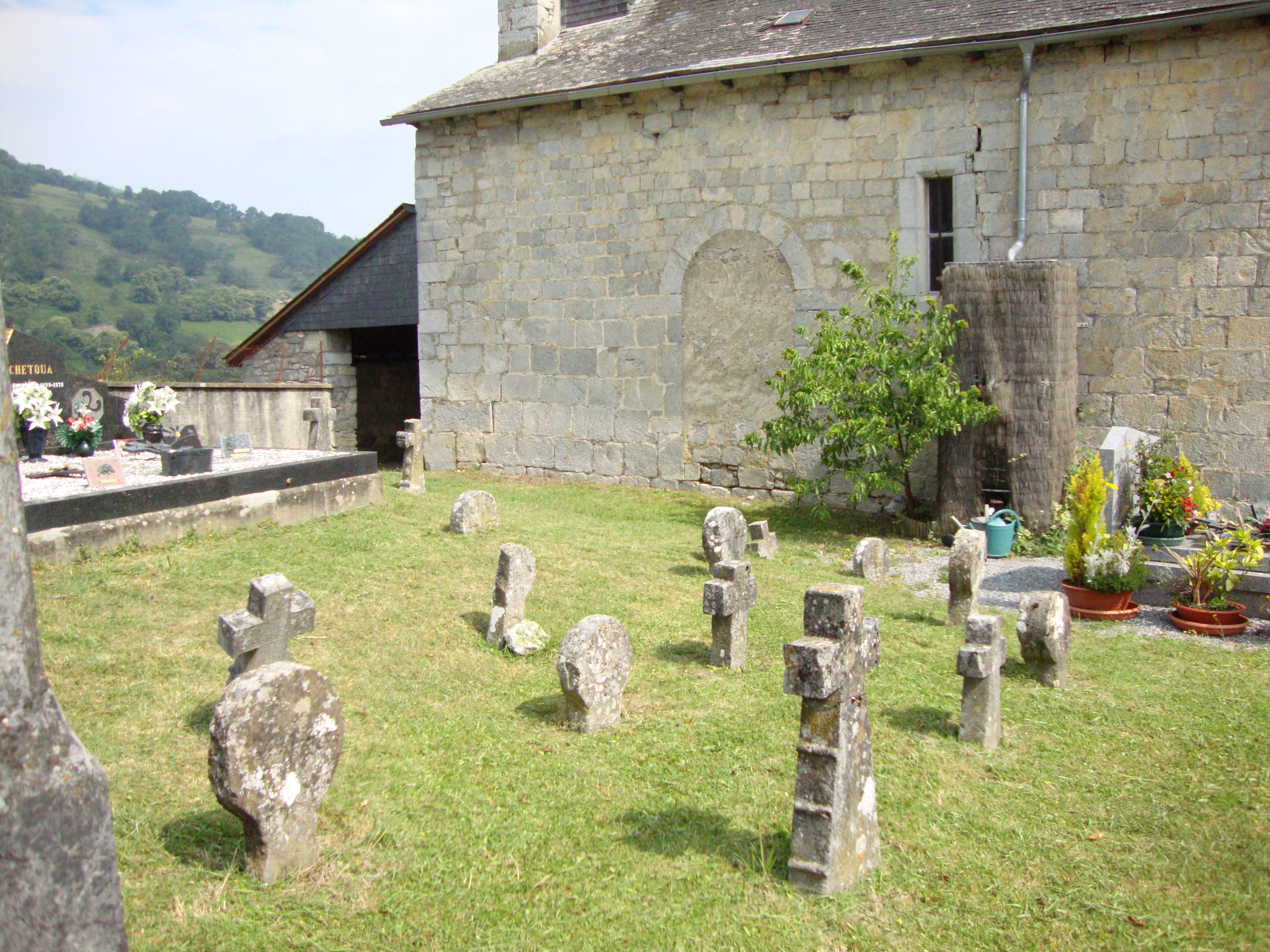 Cihigue (Camou-Cihigue,_Pyr-Atl,_Fr) old basque steles, old crosses on the churchyard